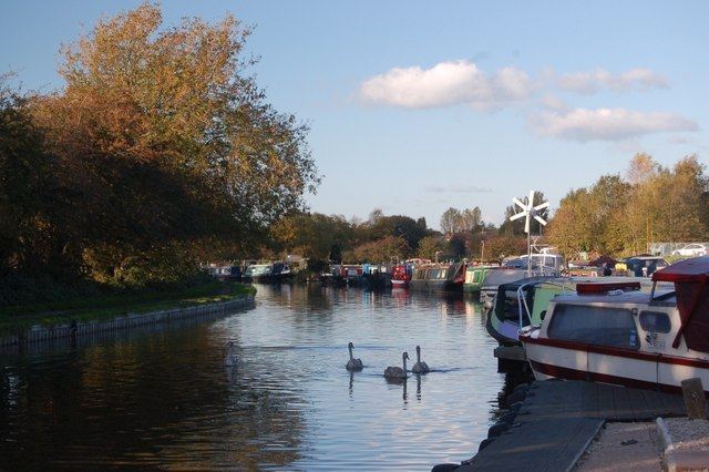 White Bear Marina, on the Leeds & Liverpool Canal, Adlington, Chorley, Lancashire. 3 swans sail serenely past moored boats at White Bear Marina in Adlington.